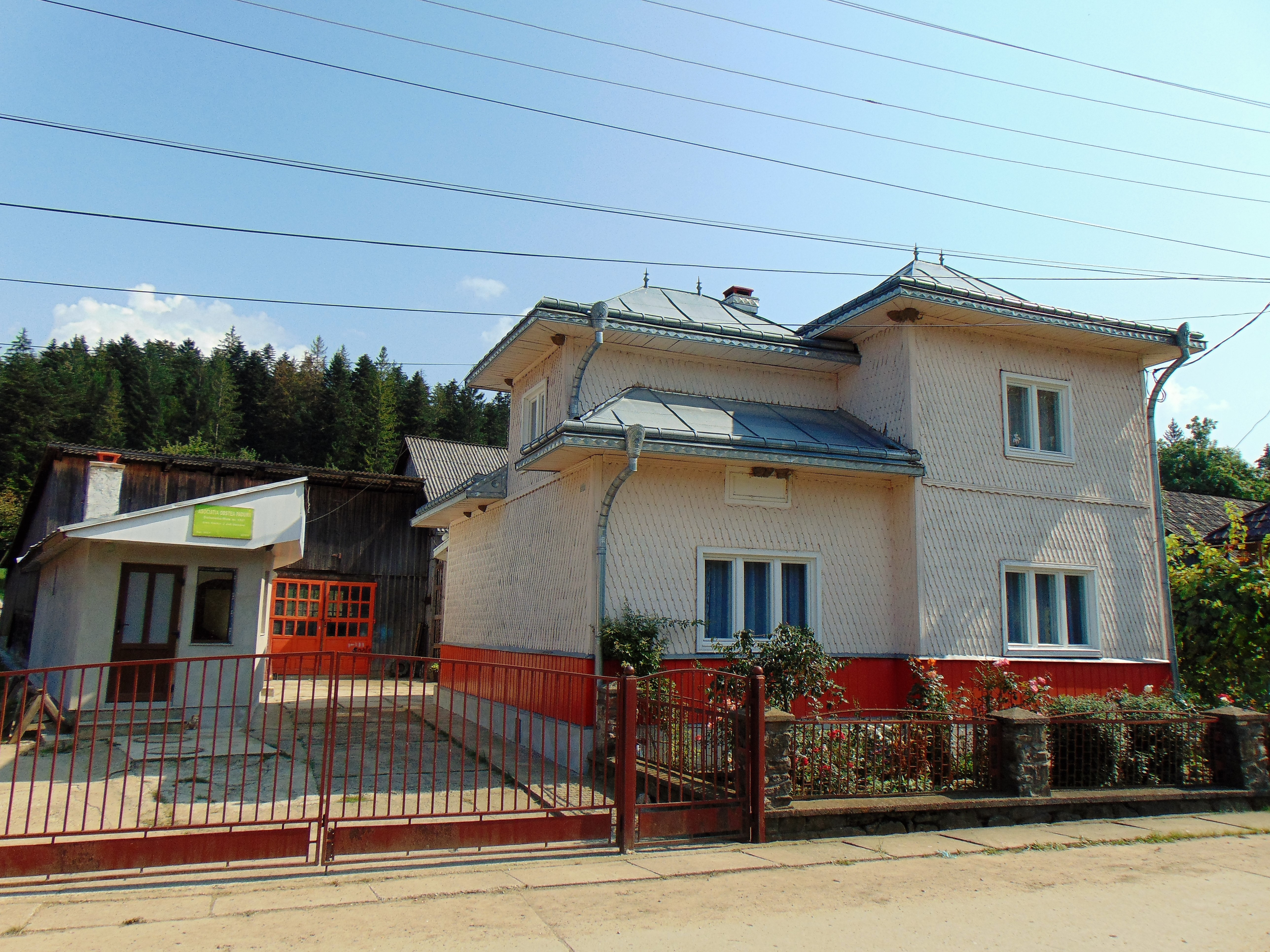 Nowy Sołoniec/Solonețu Nou, a Polish village in the Romanian Bukovina (Suceava County).